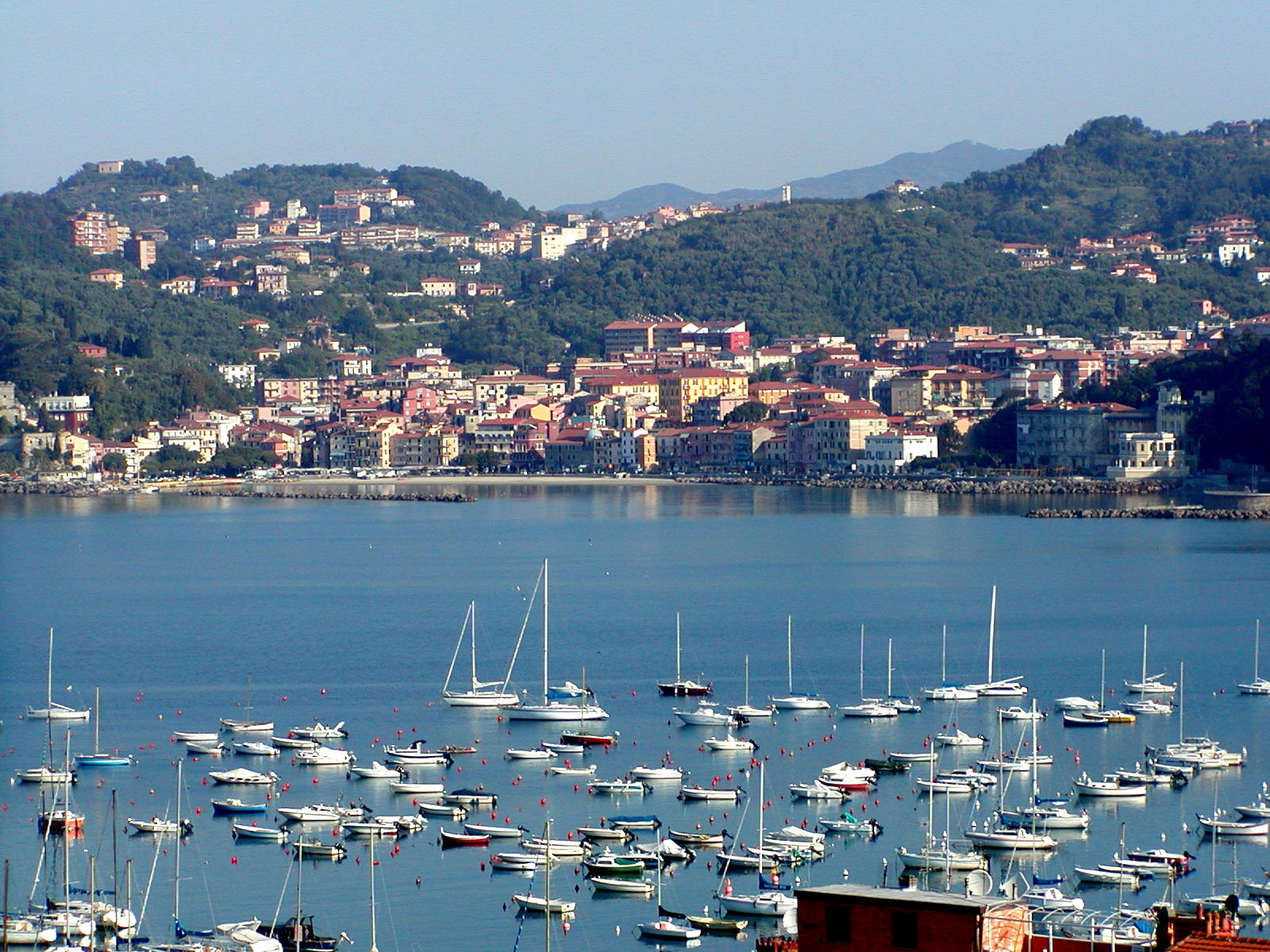 San Terenzo di Lerici (La Spezia) seen from Lerici